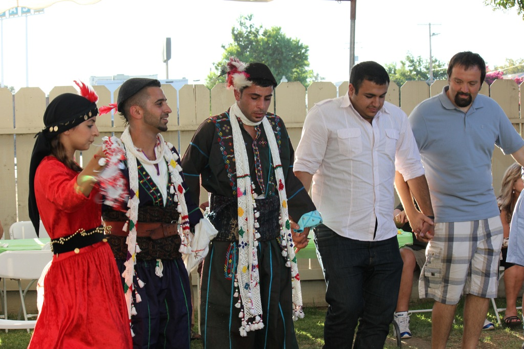 The Assyrian folk danced called the khigga.